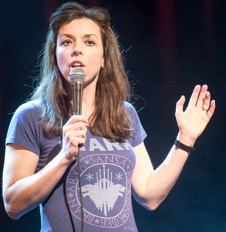 Bridget Christie at Parkteatret. The event is part of Crap Comedy festival 2017 and took place on 28. January 2017 in Oslo. Lineup: Bridget Christie (comedian)